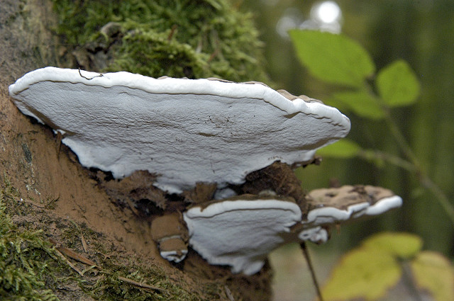 Ganoderma applanatum from Commanster, Belgium. The determination of the species shown in this picture has been verified.